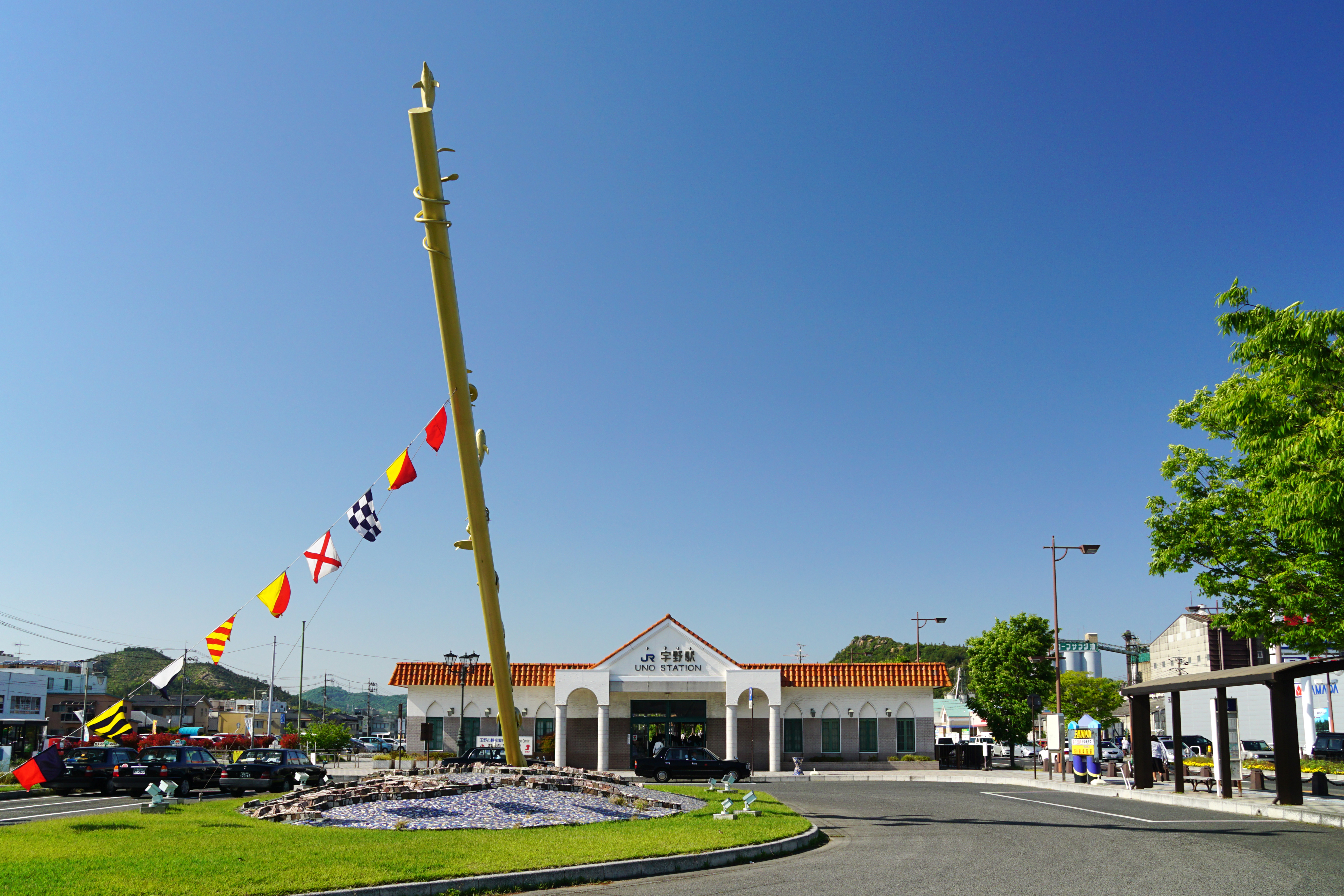 Uno Station in Tamano, Okayama prefecture, Japan.